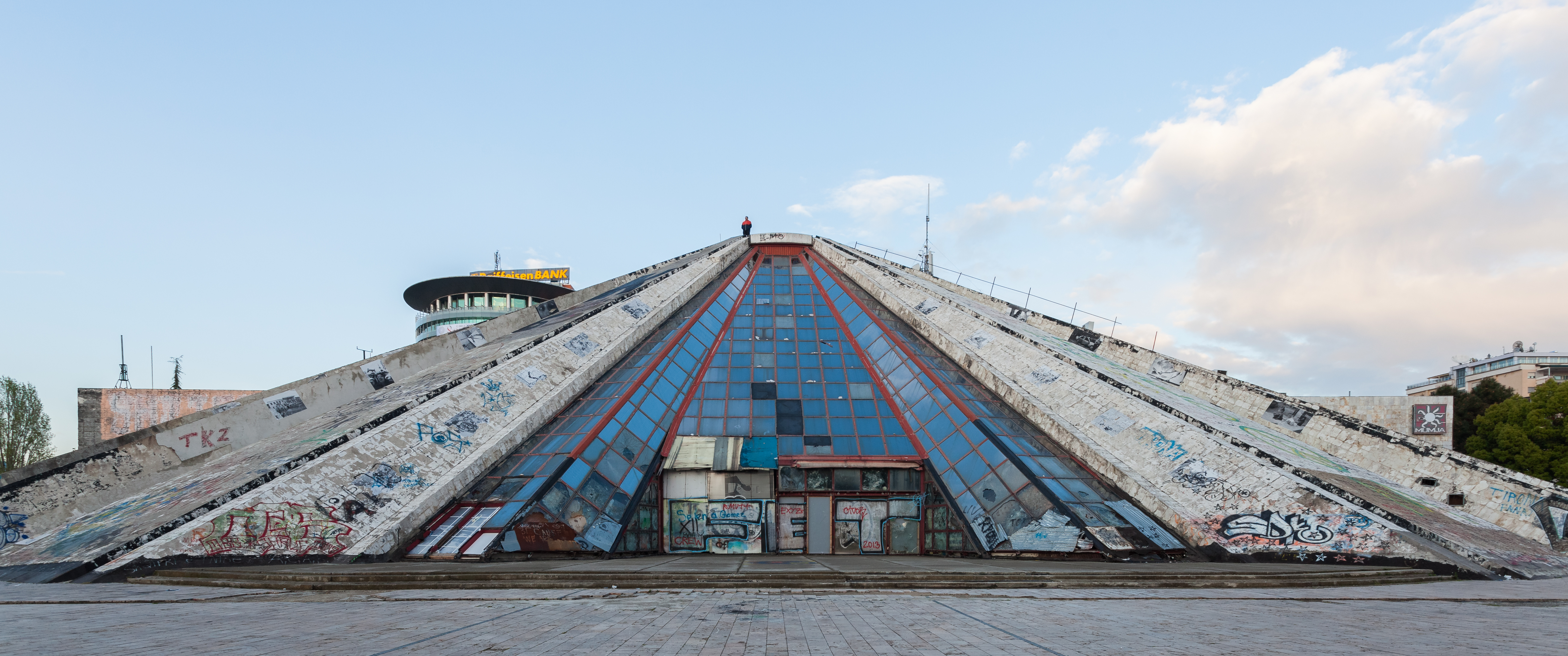 Pyramid, Tirana, Albania